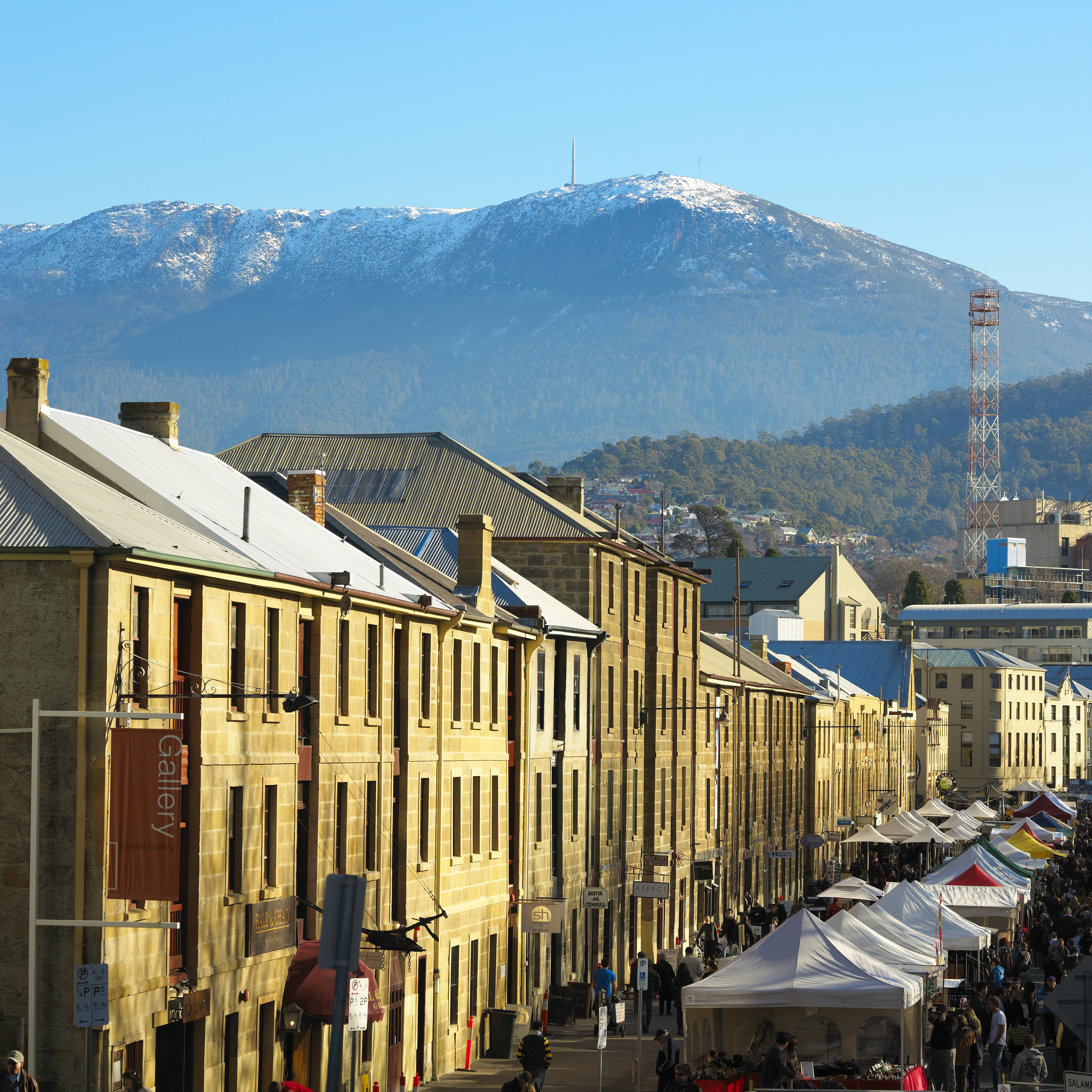 Salamanca Place with Mount Wellington in the background, Hobart, Tasmania